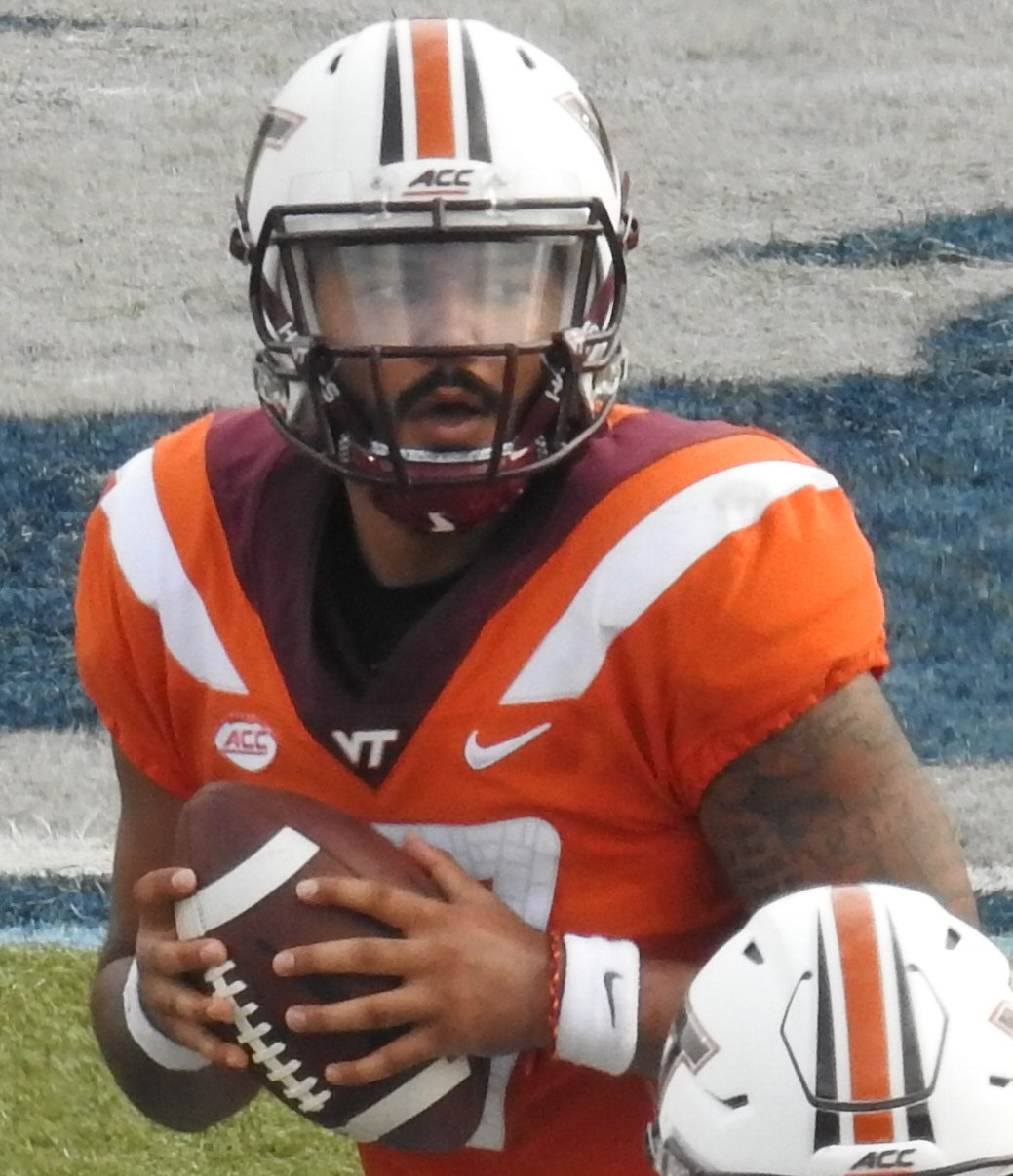 Josh Jackson drops back to pass during Virginia Tech's 2018 game at Old Dominion University.